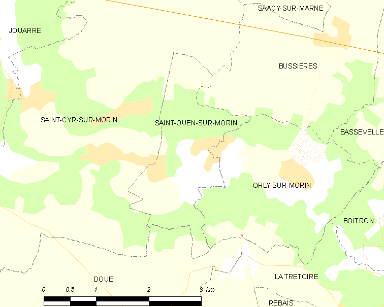 Map of French municipality Saint-Ouen-sur-Morin